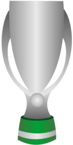 ajuste